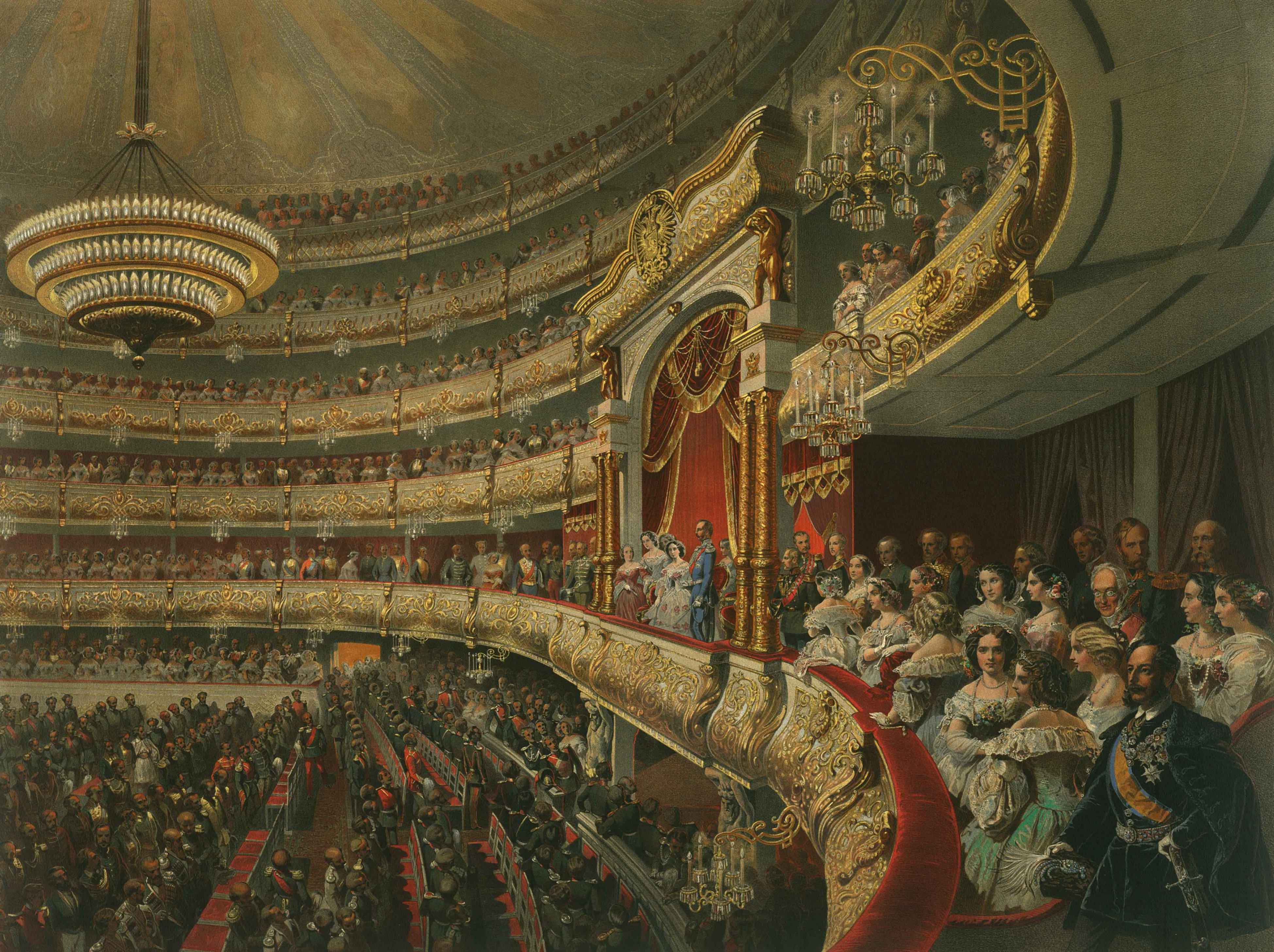 Performance in the Bolshoi Theatre / Theateraufführung im Moskauer Bolschoi-Theater (Chromolithographie)